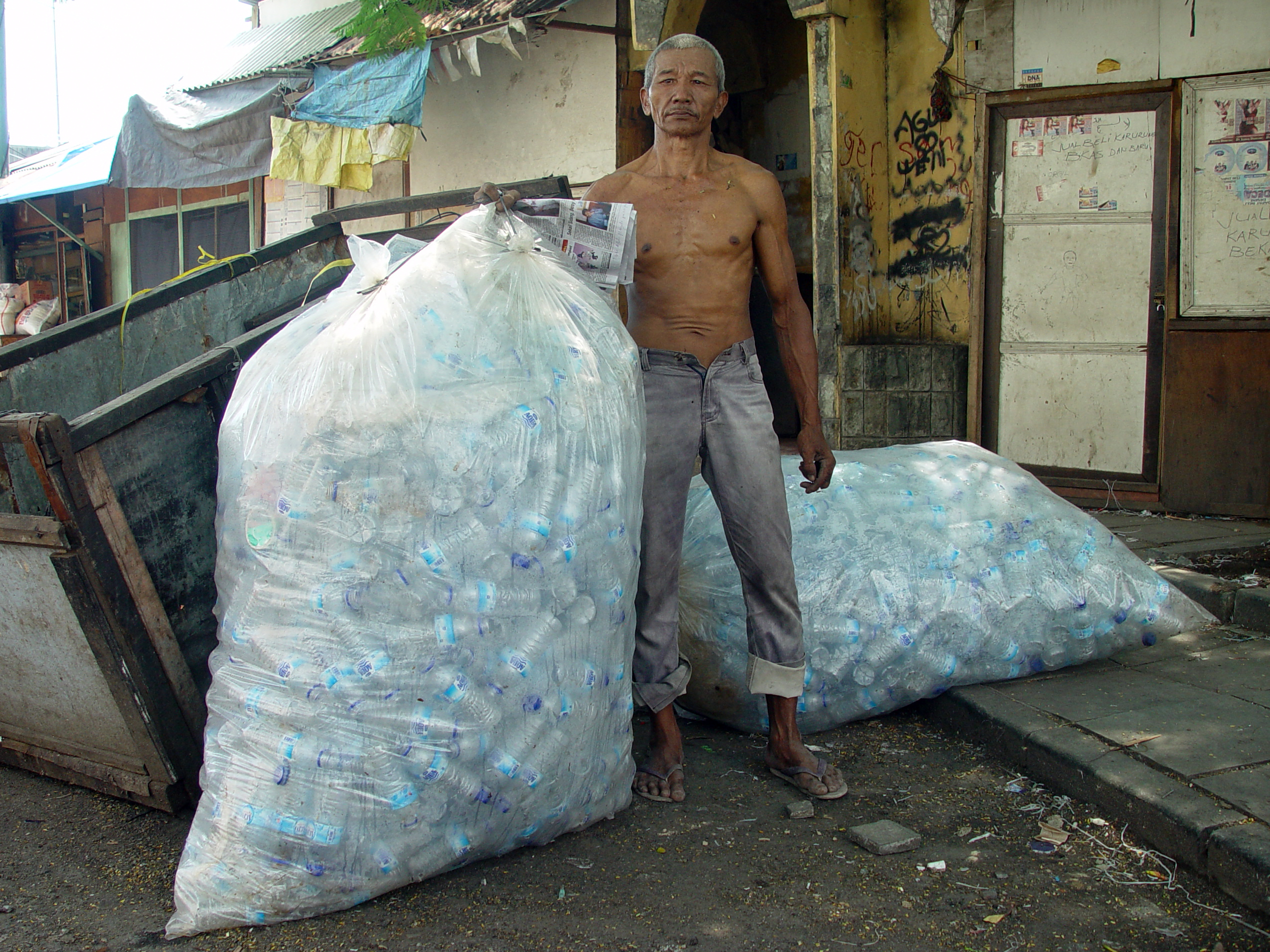 Slum life, Jakarta Indonesia.